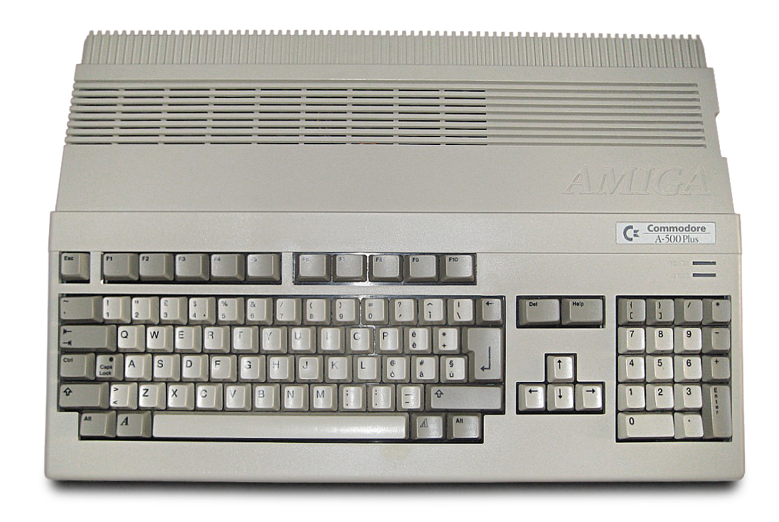 Commodore Amiga 500 Plus home computer